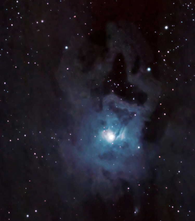 Iris Nebula